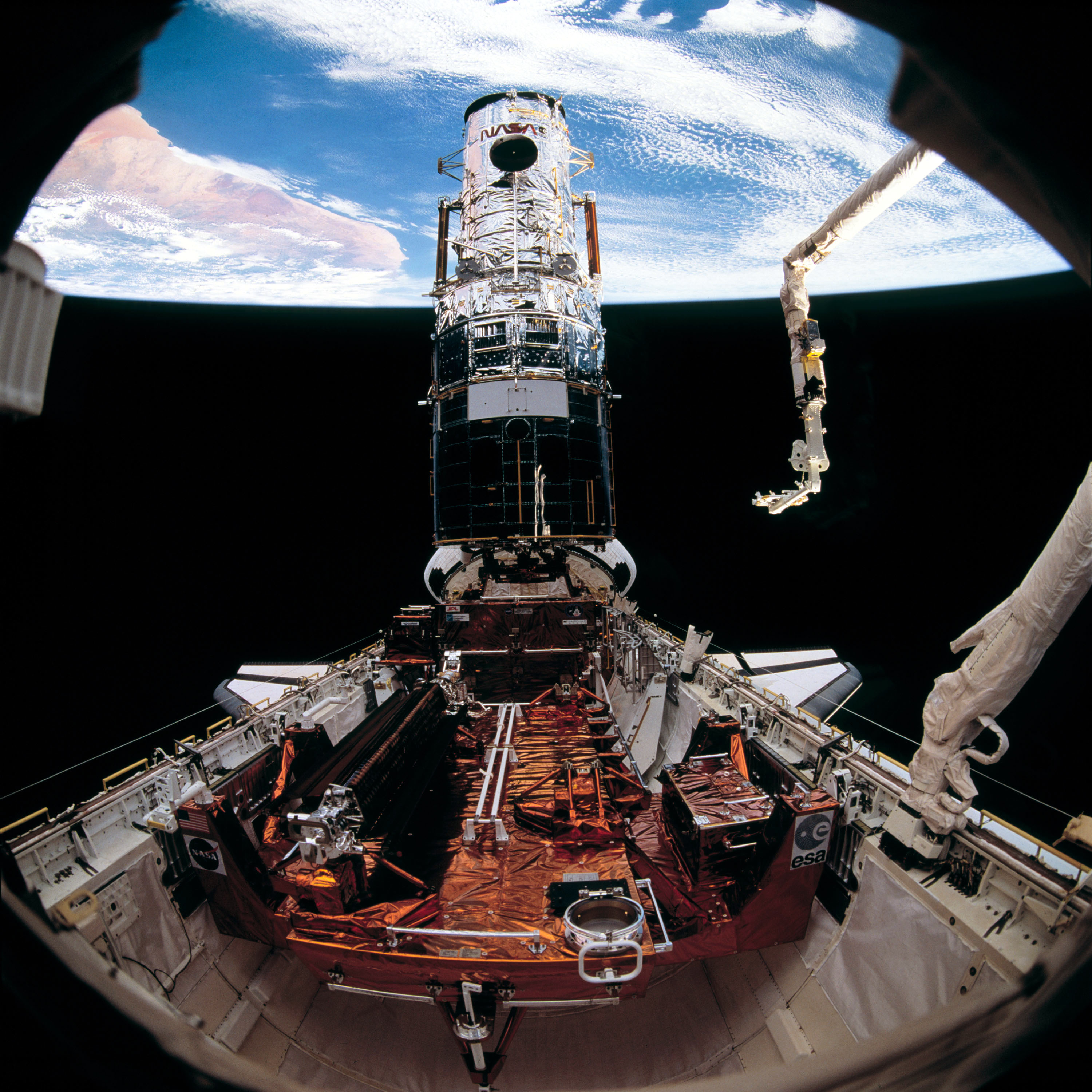 The Hubble Telescope after the installation of new solar arrays during the second spacewalk of mission STS-61.